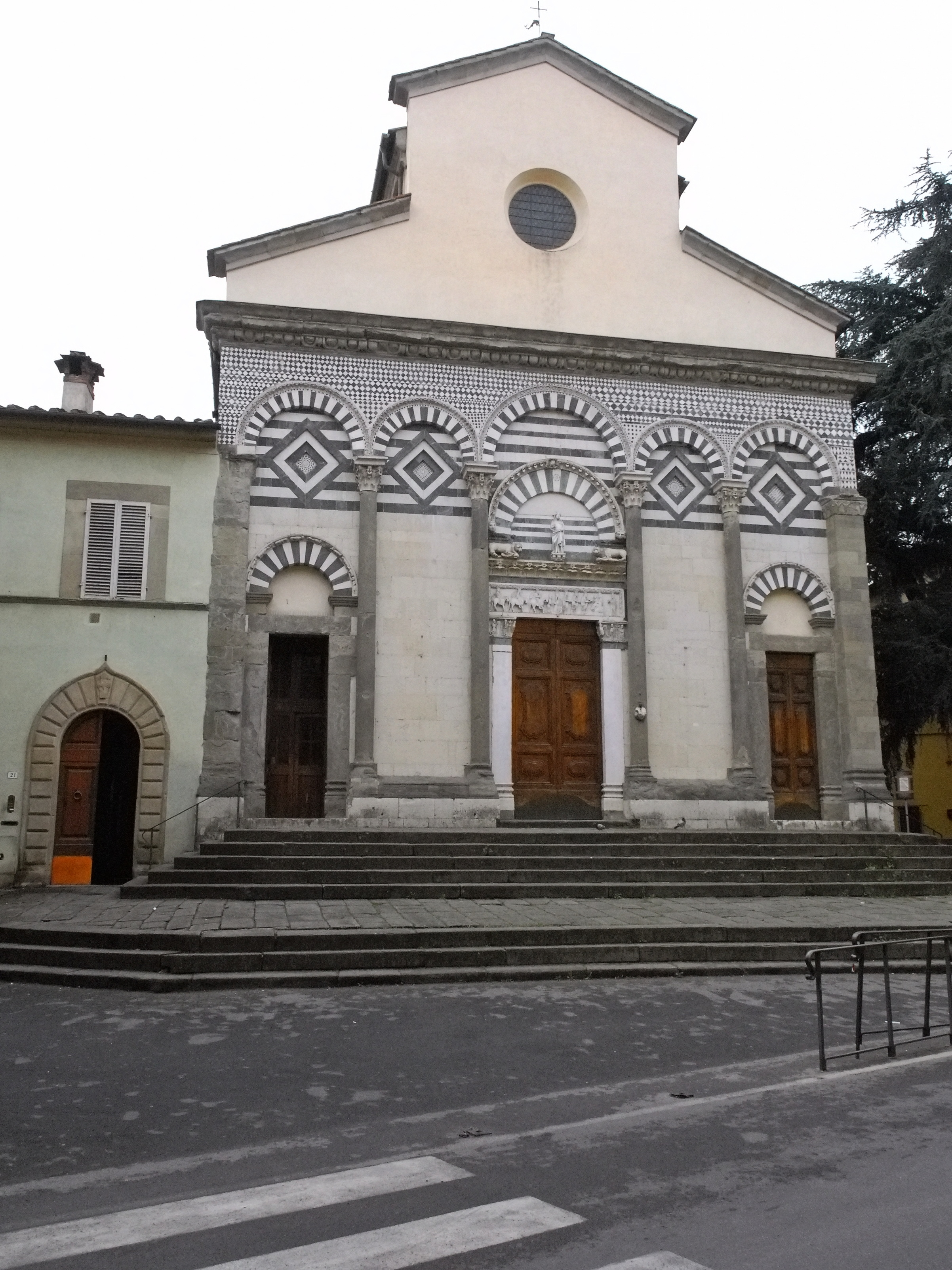 Photos taken' in Pistoia, during the national Wikimedia Italia meetup in Pistoia, 20-21 march 2010